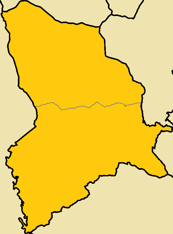 Spilia with quarters.